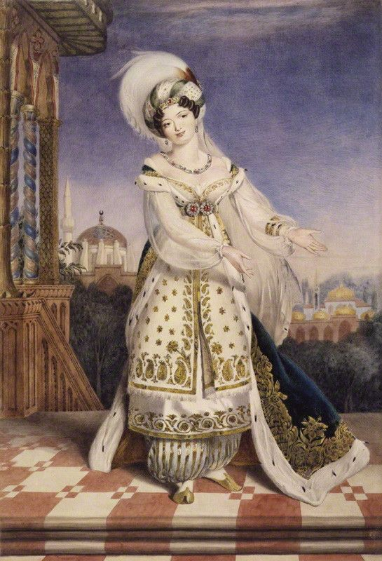 Portrait of Guiseppina De Begnis-1828-Alfred Chalon